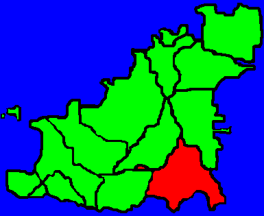 This map shows the position of St Martin's in relation to the rest of Guernsey. I drew it myself but it is based on the picture Parishes in Guernsey, which I also drew myself, and the picture